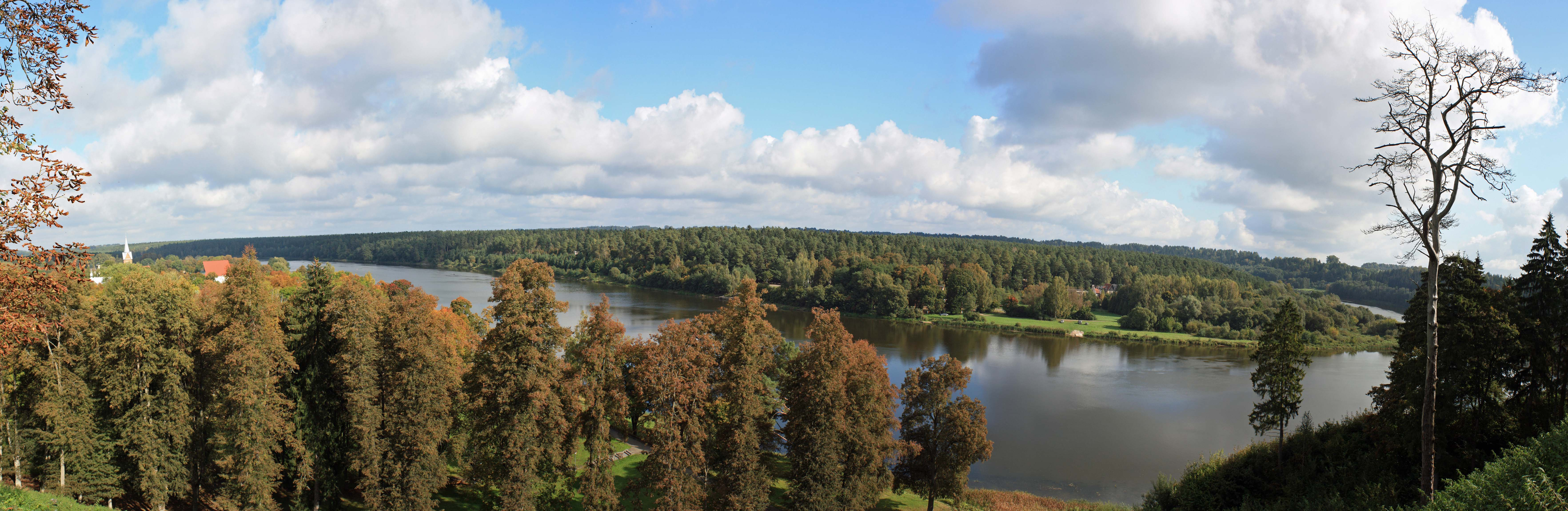 Nemunas near Birštonas, Lithuania.